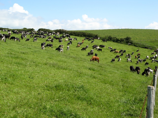 Large Herd of Cows near Mothecombe A very large herd of dairy cows on the coast path from Stoke Beach to Mothecombe.